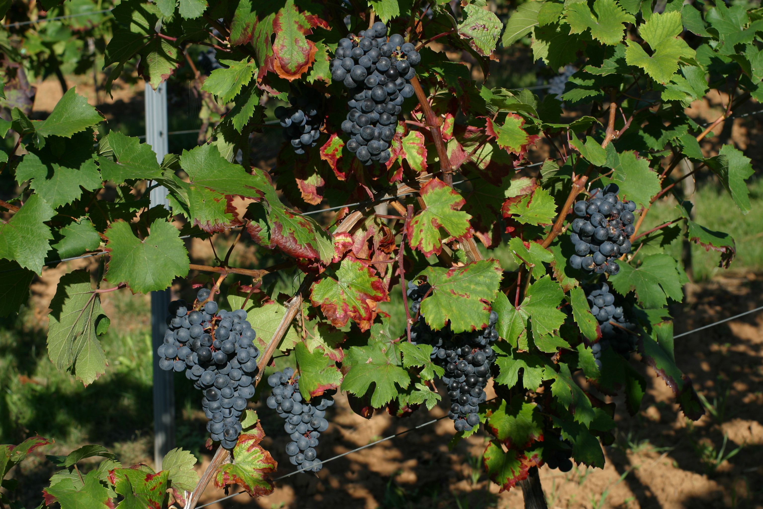 A vine of the Italian variety Dolcetto